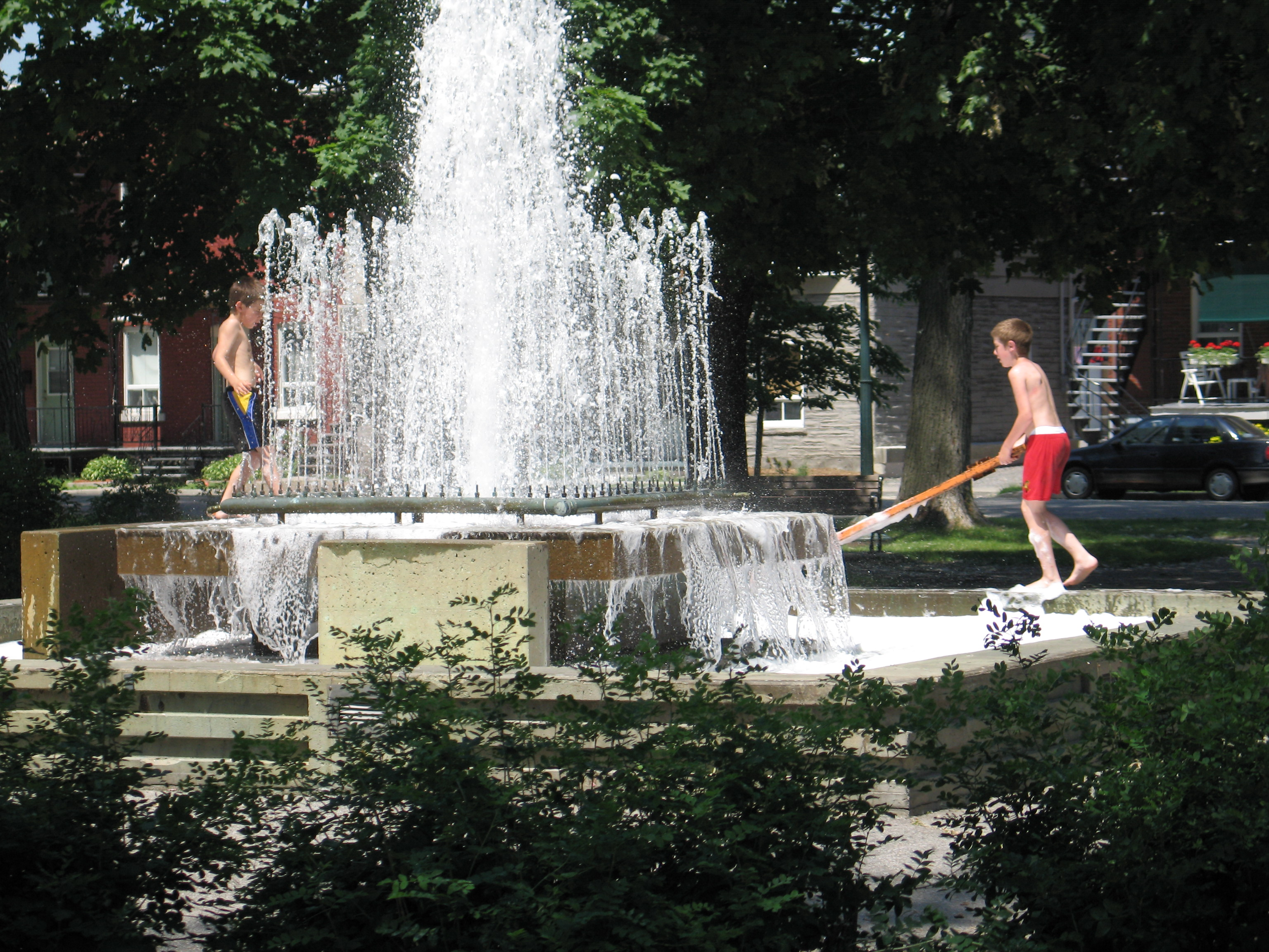 The fountain at Victoria Park in Trois-Rivières, Quebec, during a hot summer day.Photo: Claude Boucher, June 18, 2006